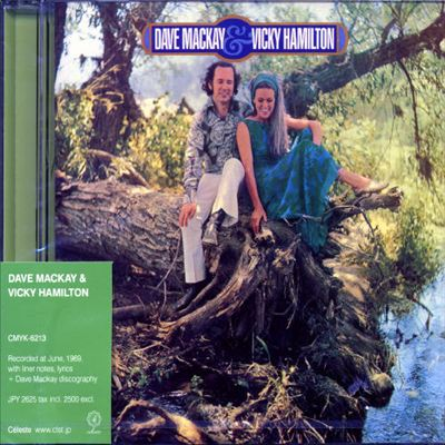 cover of LP